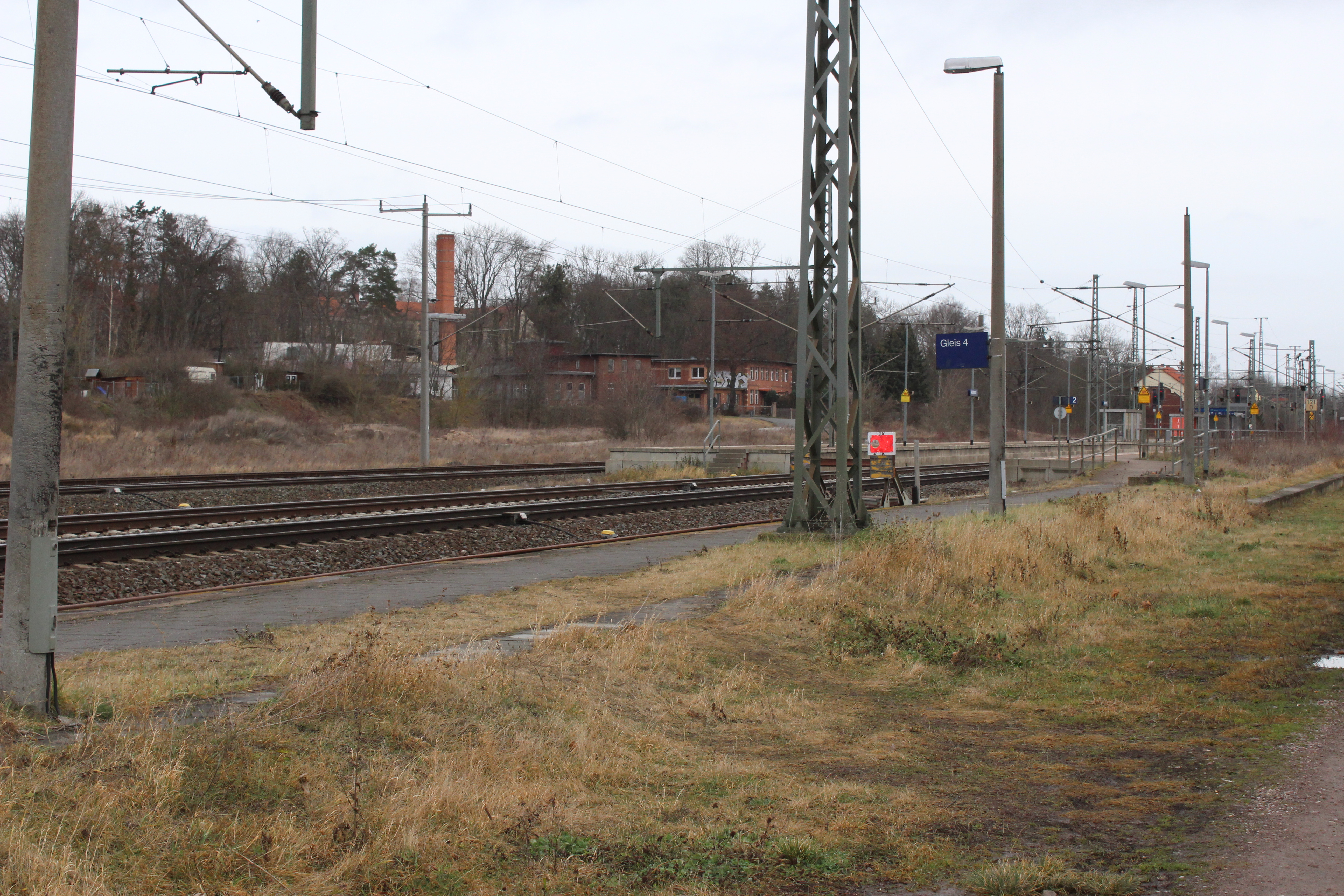 train station Neudietendorf, platform 4